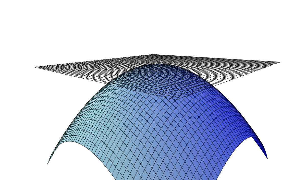 Paraboloid surface with a tangent plane at its maximum point.